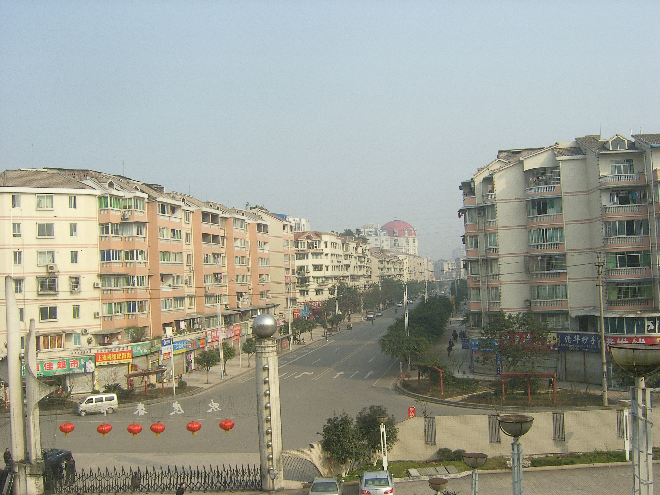 New streets in Hechuan city.This photo has been taken by Mr.Chen Hualin.